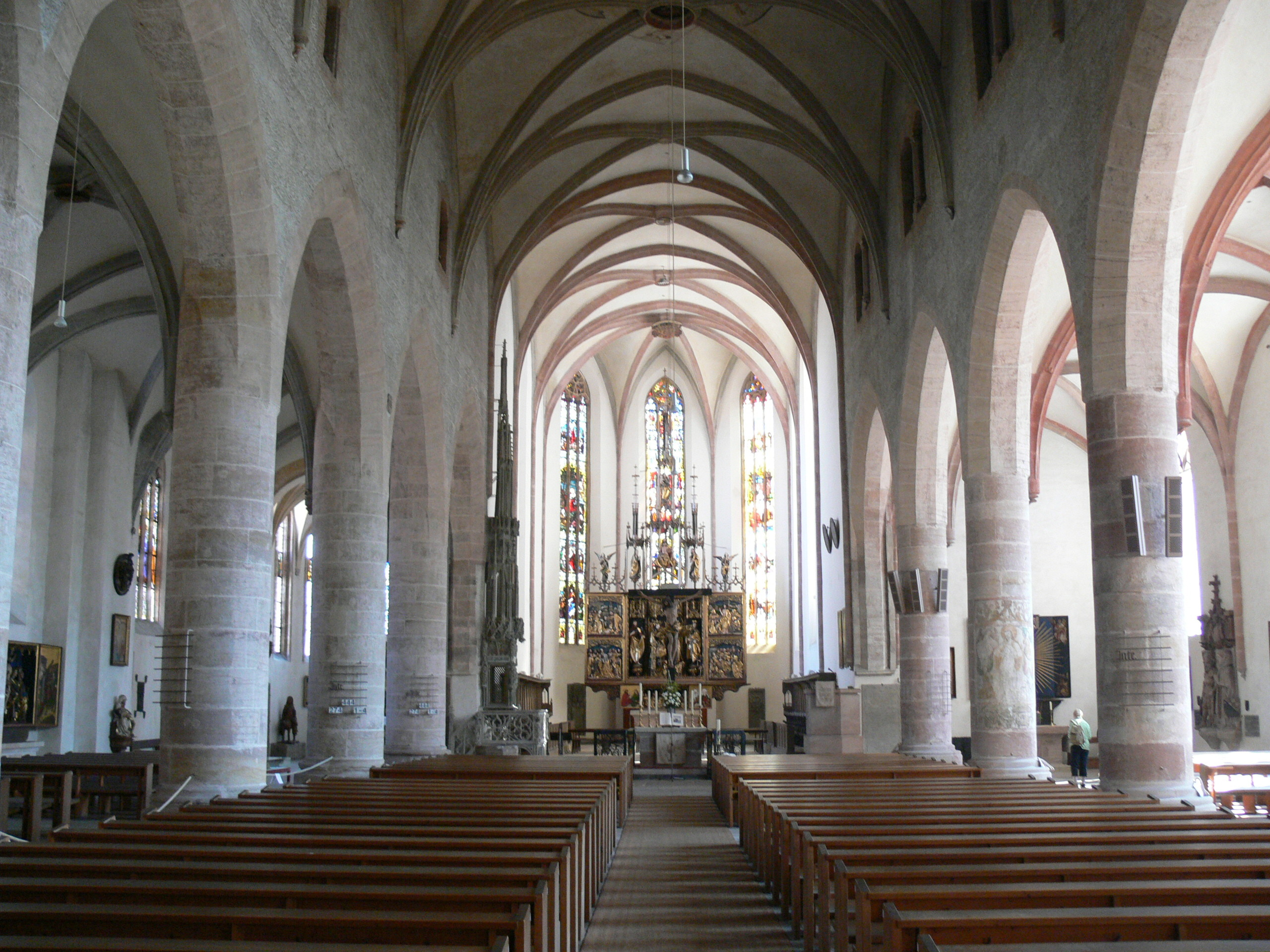 Schwabach. Church St.John and St.Martin. Interior